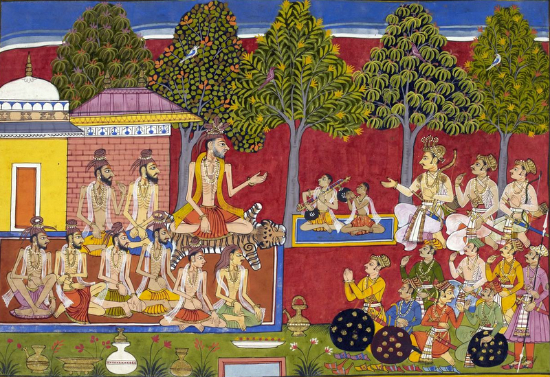 "In this picture Rama's brother Satrughna is returning with his attendants to Ayodhya from his kingdom of Madhu for the first time in twelve years and halts at Valmiki's hermitage. There he hears Lava and Kusa singing the story of Rama. The omniscient sage Valmiki composed his epic poem on the deeds of Rama and Sita and taught it to the two boys."